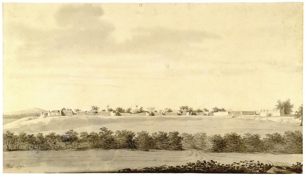 Inkwash drawing of Chinnapattam fort established by Jugadeva Raya in 1580